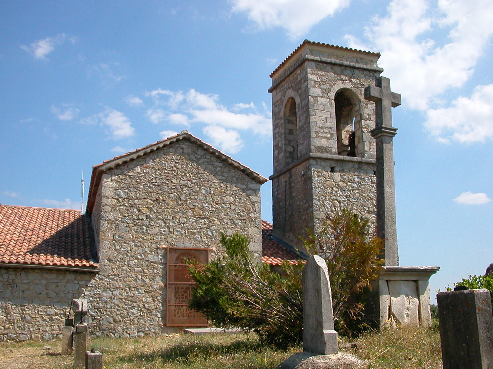 Eglise de Sampzon (Ardèche). Church Saint-Martin of Sampzon, choir 11th century, rest of the church was changed and rebuilt several times.